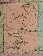 This is a map of Macoupin County, Illinois which includes the town of Woodburn but not the currently much larger neighboring town of Bunker Hill.